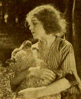 Still from the American film What Am I Bid? (1919) with Mae Murray holding a sheep, on page 272 of the April 12, 1919 Moving Picture World.